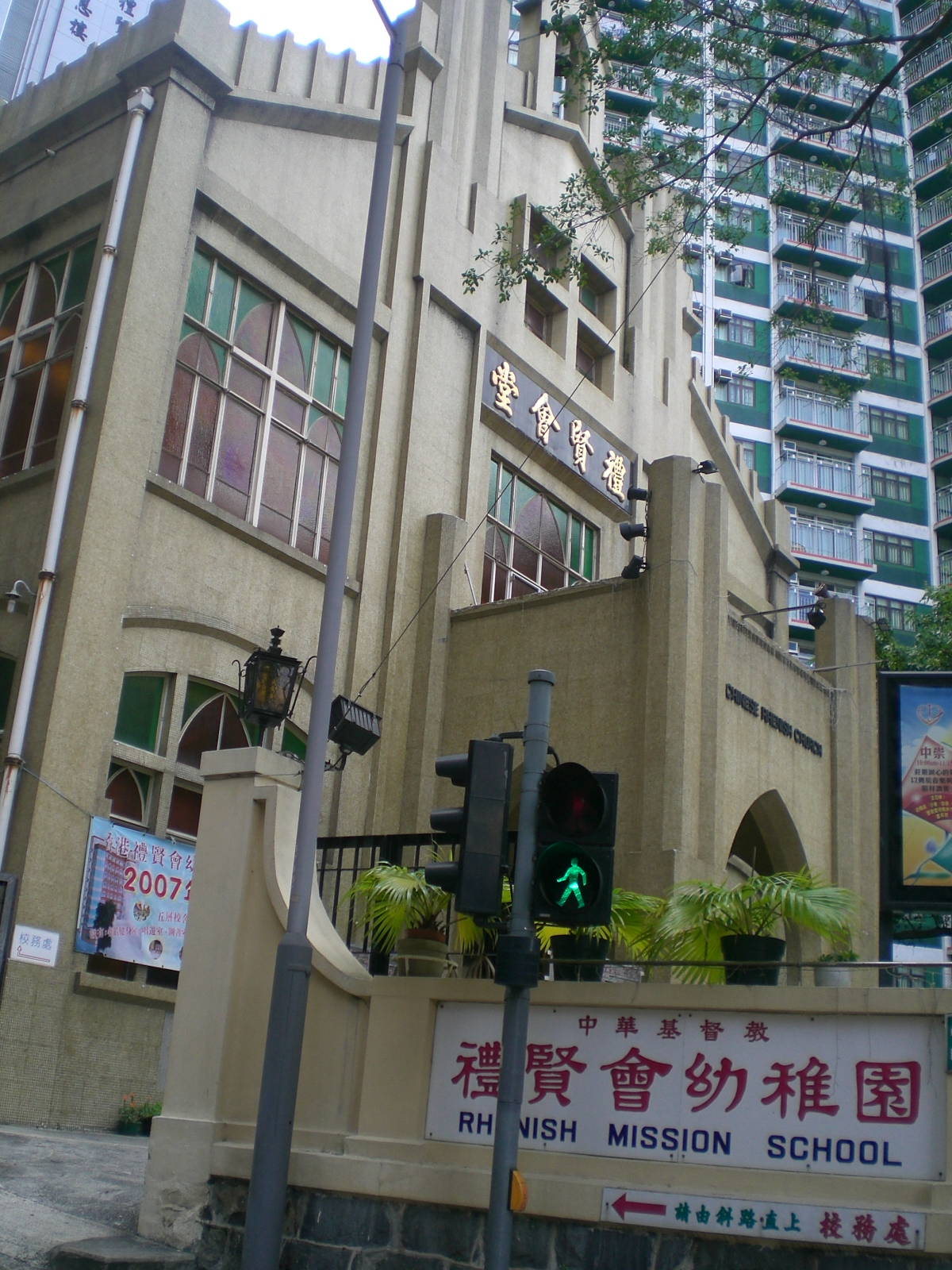 Rhenish Missionary Society, 禮賢會香港堂